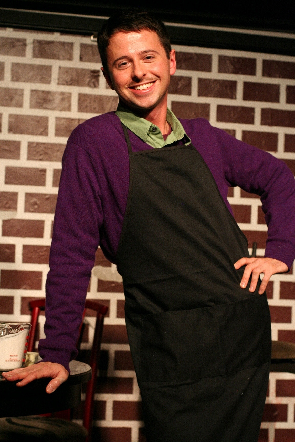 American actor and comedian John Milhiser performing in character at "Overload the Machine", a monthly comedy show at The Peoples Improv Theater.